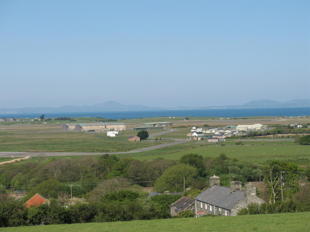 Llanbedr Hangars Meteor and Jindivik hangars Llanbedr Airfield